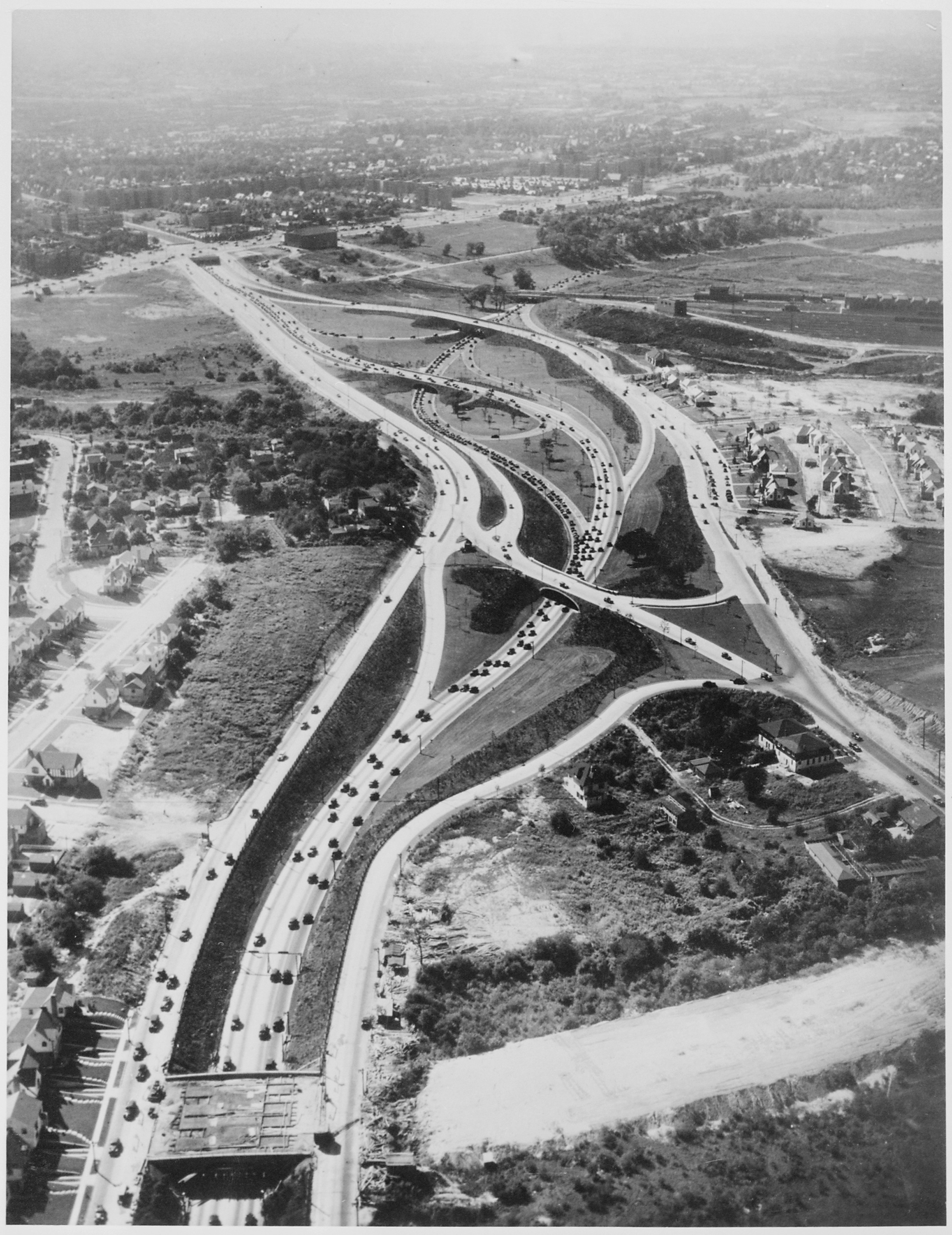 General notes: Looking west along Grand Central Parkway at the Kew Gardens Interchange with Union Turnpike (bottom right) and Interboro Parkway (now Jackie Robinson Parkway). Main Street overpass is under construction in foreground. Union Turnpike goes under Queens Boulevard in background.